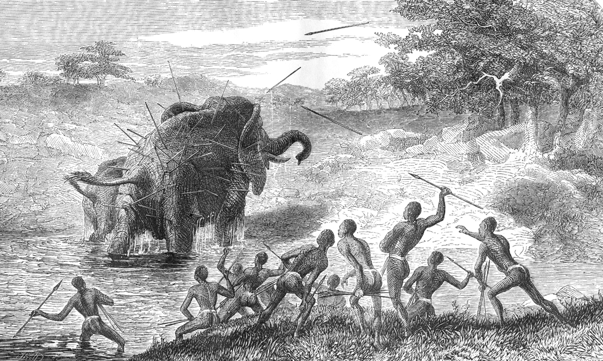 Female Elephant Pursued with Javelins, Protecting Her Young. "She often stood after she had crossed a rivulet, and faced the men, though she received fresh spears. It was by this process of spearing and loss of blood that she was killed, for at last, making a short charge, she staggered round and sank down dead in a kneeling posture. I did not see the whole hunt, having been tempted away by both sun and moon appearing unclouded. I turned away from the spectacle of the destruction of noble animals, which might be made so useful in Africa, with a feeling of sickness, and it was not relieved by the recollection that the ivory was mine, though that was the case. I regretted to see them killed, and more especially the young one, the meat not being at all necessary at that time; but it is right to add, that I did not feel sick when my own blood was up the day before. We ought perhaps to judge these deeds more leniently in which we ourselves have no temptation to engage. Had I not been previously guilty of doing the very same thing, I might have prided myself on superior humanity, when I experienced the nausea in viewing my men kill these two." [pp. 562-563]